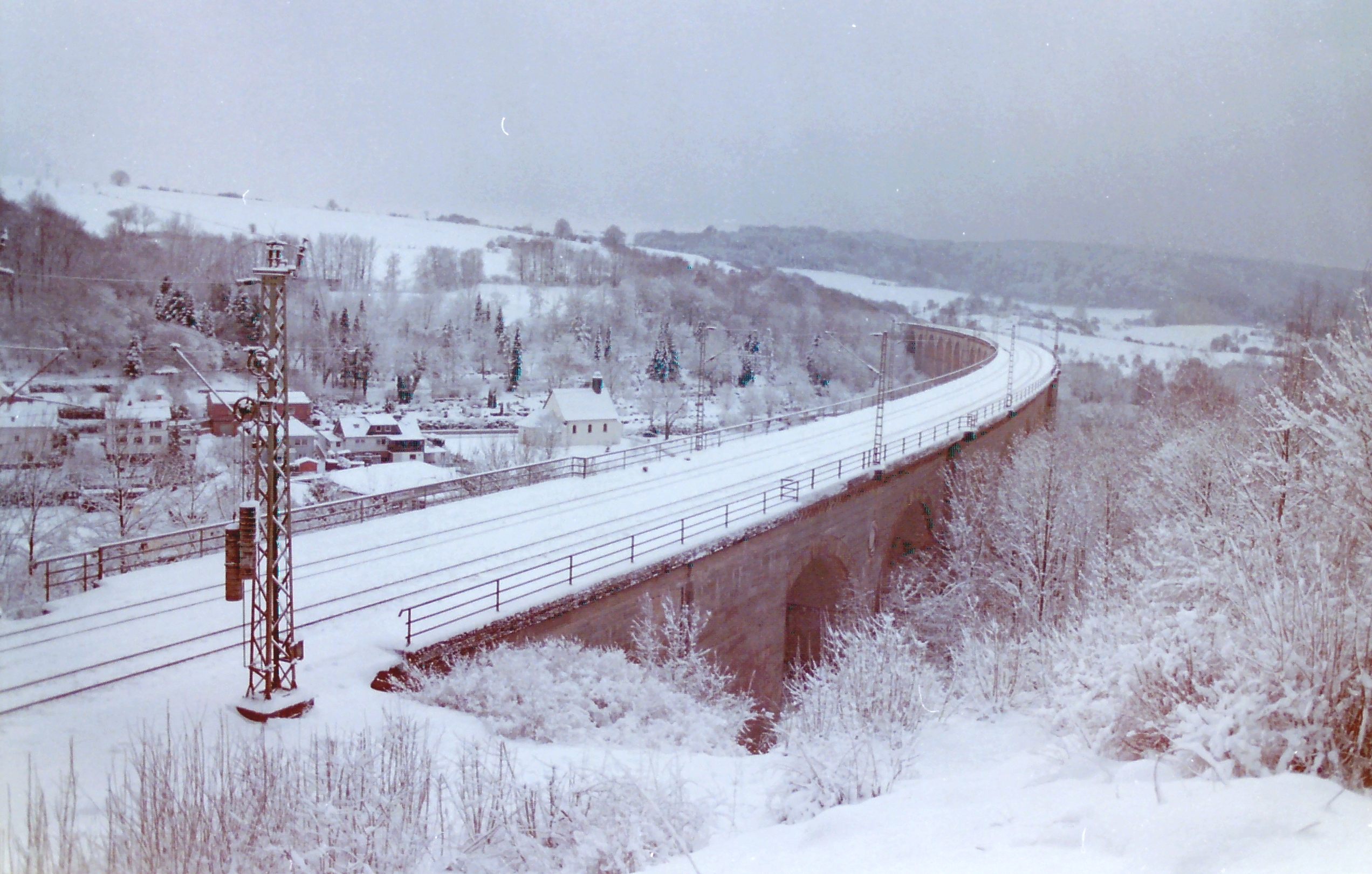 The viaduct in Altenbeken in the winter 2008/2009